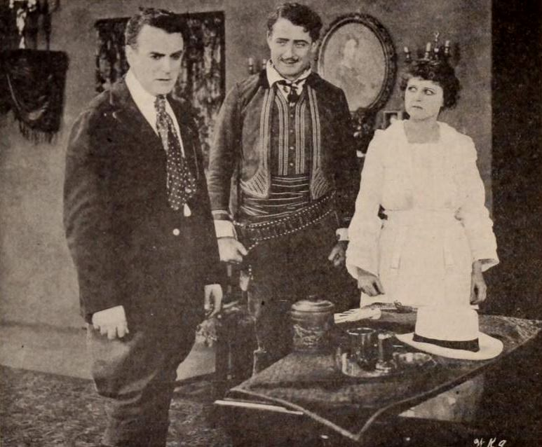 Still from the American film A White Man's Chance (1919) with Howard Davies, J. Warren Kerrigan, and Lillian Walker, on page 63 of the July 19, 1919 Exhibitors Herald.